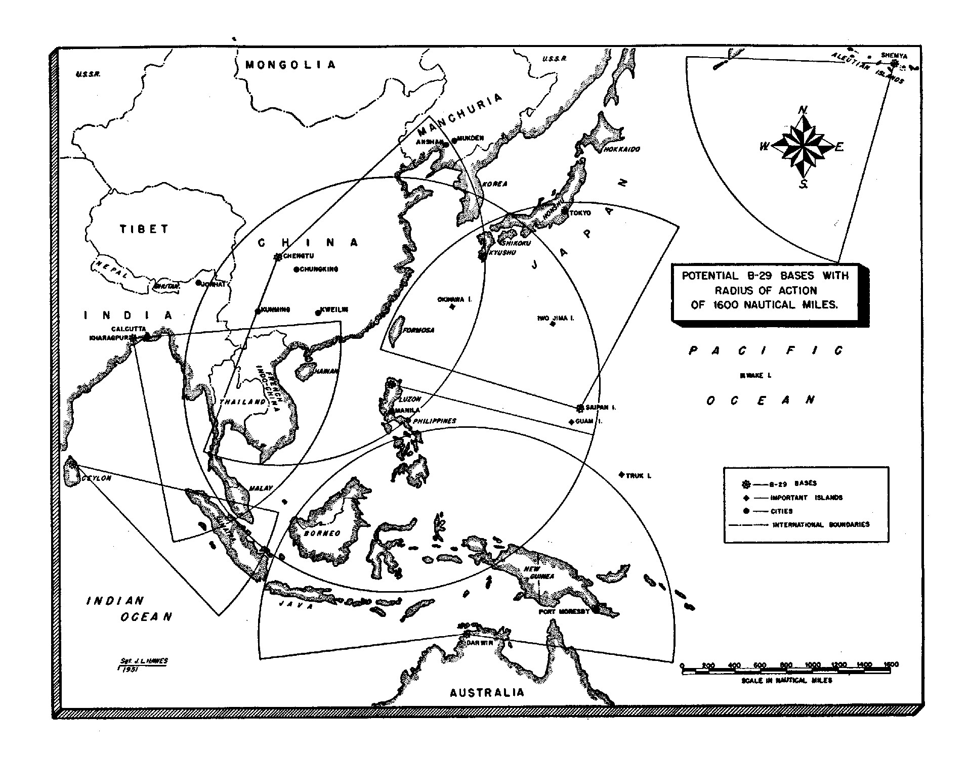 Map of potential B-29 bases with radius of action of 1600 nautical miles.